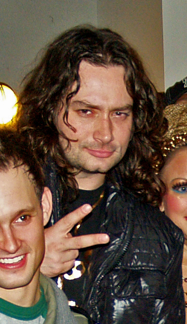 Constantine Maroulis, male lead in the the off-Broadway musical Rock of Ages, backstage with the cast of the show.